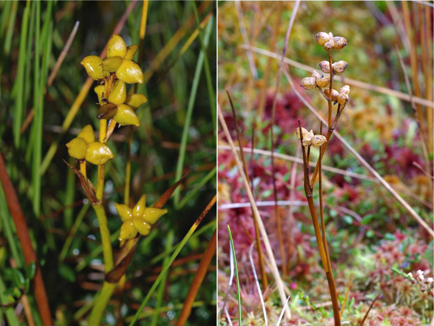 The plant Scheuchzeria palustris in a bog. Left: ripe fruits, right: over-ripe (only one week later).